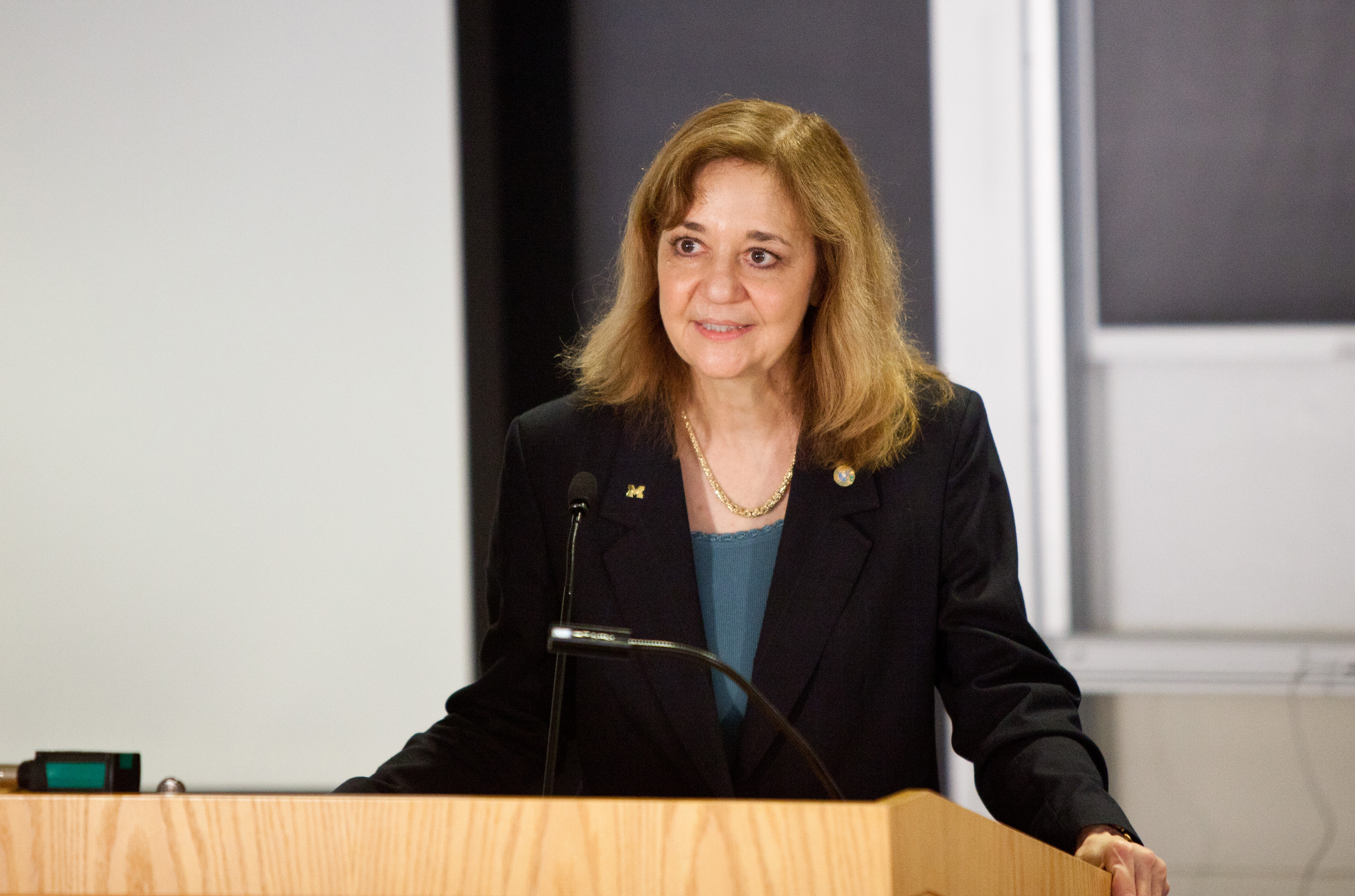 SNRE Professor (and former dean) Rosina M. Bierbaum welcomes friends and family of Jonathan Bulkley to the Bulkley Academic Retrospective, held Sept. 9 in the Dana Building on the campus of the University of Michigan. U-M Photo Services